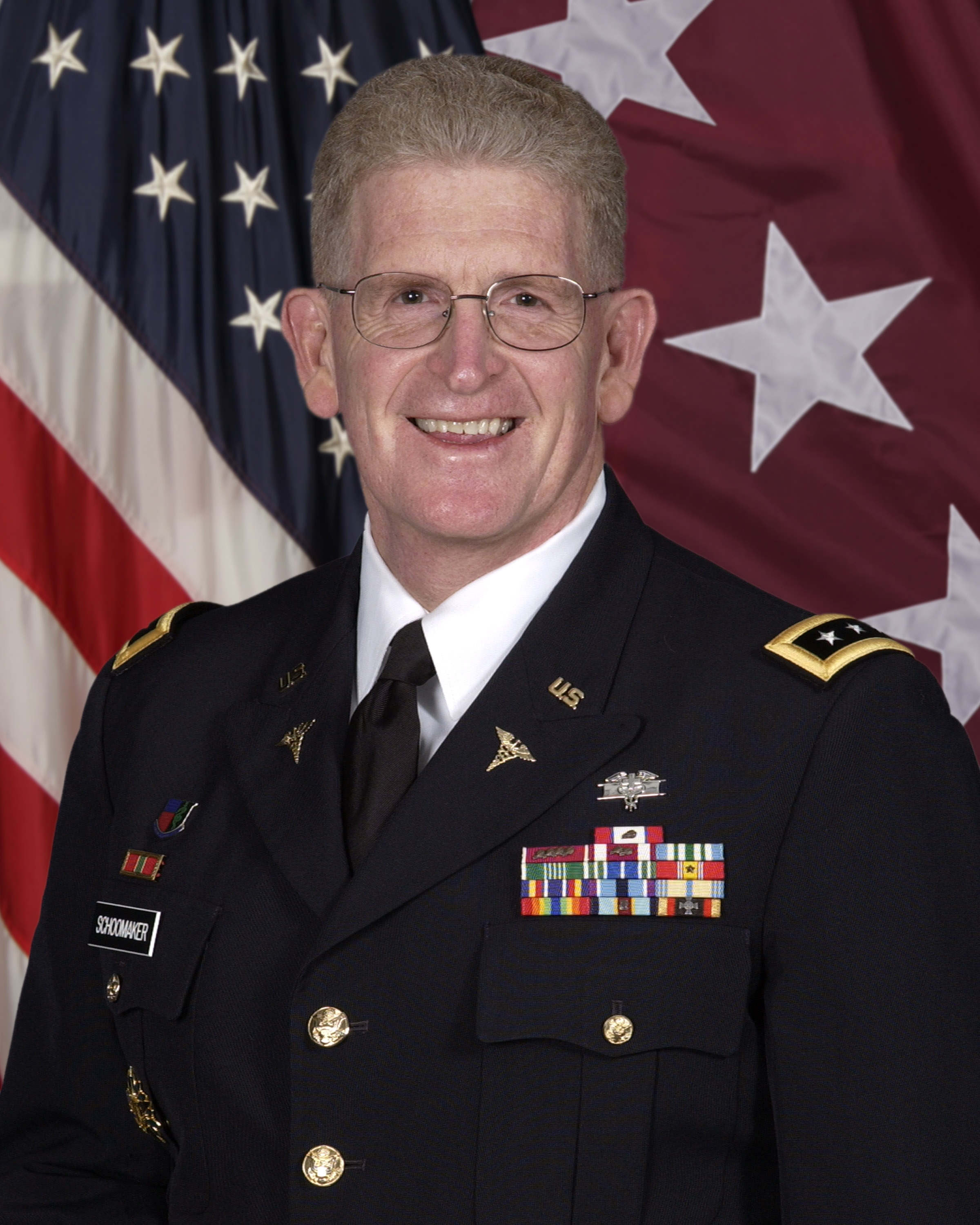 Lieutenant General Patricia Horoho, USA Surgeon General of the U.S. Army & Commander, U.S. Army Medical Command.